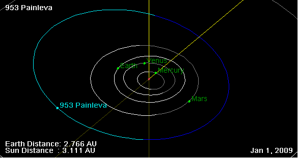 953 Painleva orbit, and his position on 01 Jan 2009 (NASA Orbit Viewer applet)